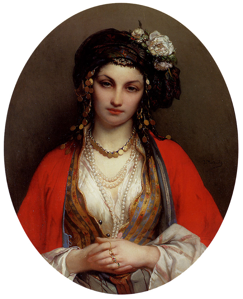 An Oriental Beauty